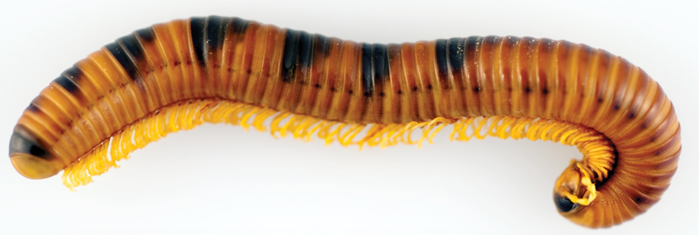 Sagmatostreptus strongylopygus, subadult female from Amani, E Usambara Mts., Tanzania, 11 April 1985, T.G. Nielsen leg. (ZMUC), lateral view. Length of specimen 117 mm.